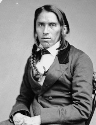 Chief Hole in the Day